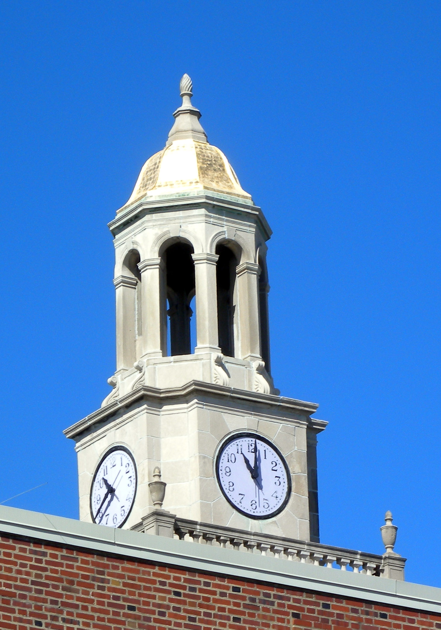 Looking northeast at rotunda of Bloomfield Town Hall on a sunny early afternoon. Both clocks are incorrect by hours; EXIF is only one hour off due to camera being on Standard Time, not Daylight.